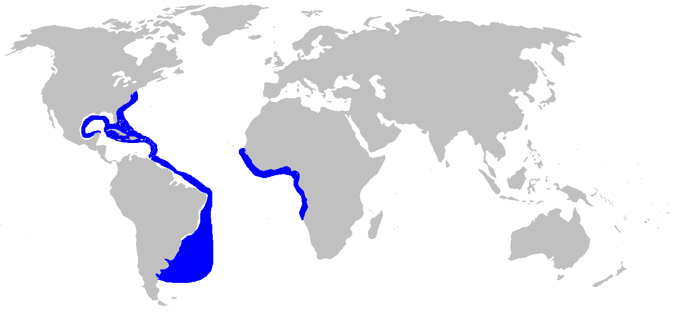 Distribution map for the night shark (Carcharhinus signatus), based on Compagno, Dando, and Fowler (2005)